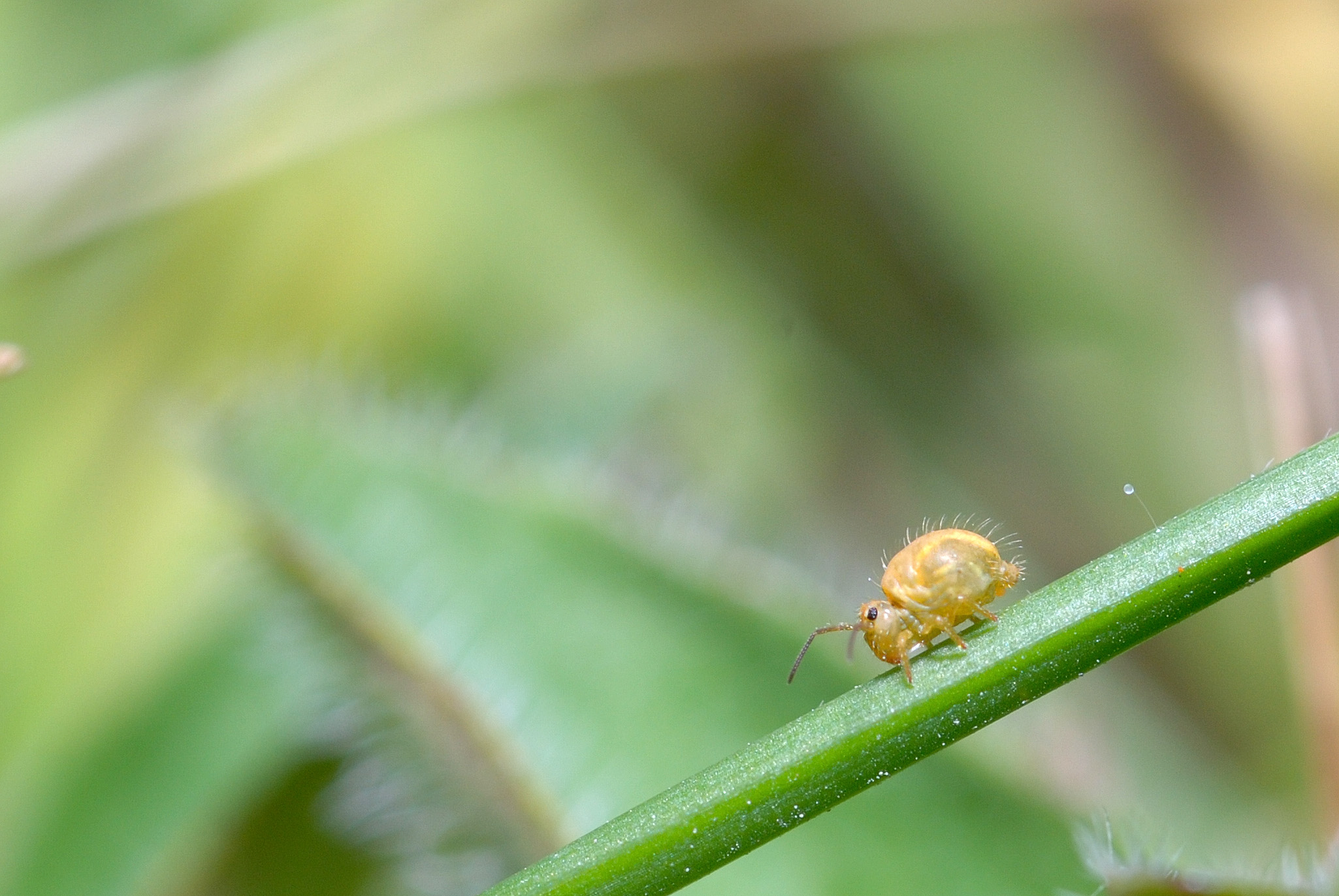 Sminthurus viridis. With a spermatophore on the right?